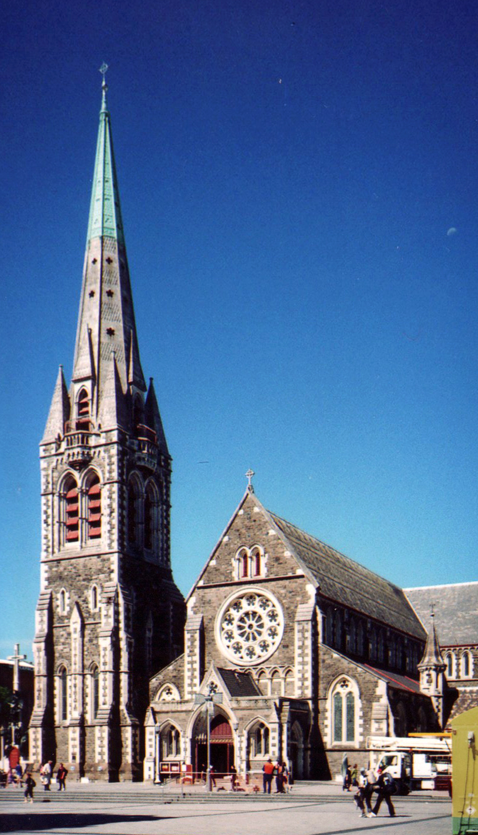 Derivative work from Image:Christchurch Cathedral.jpg (made perspective correction). Christchurch Cathedral, Christchurch, New Zealand